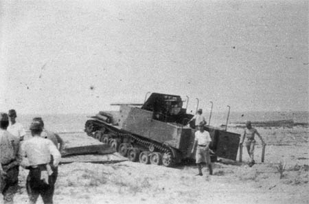 A Type 5 Na-To tank destroyer of the Imperial Japanese Army during field tests